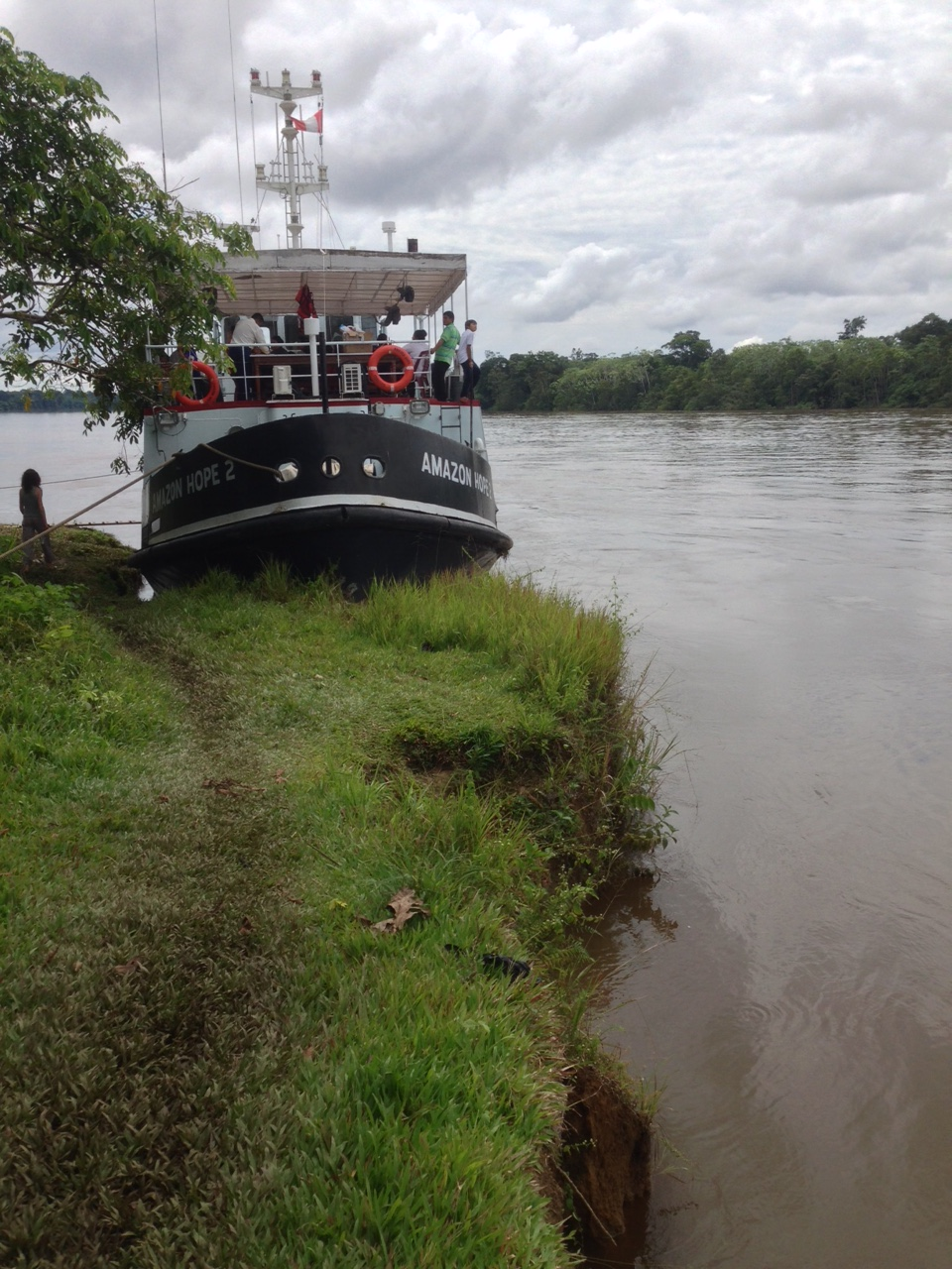 Amazon Hope Boat moored outside Peruvian village. This photograph was taken on 17th Feb 2015, during the Feb1 2015 Vine Trust volunteer trip.